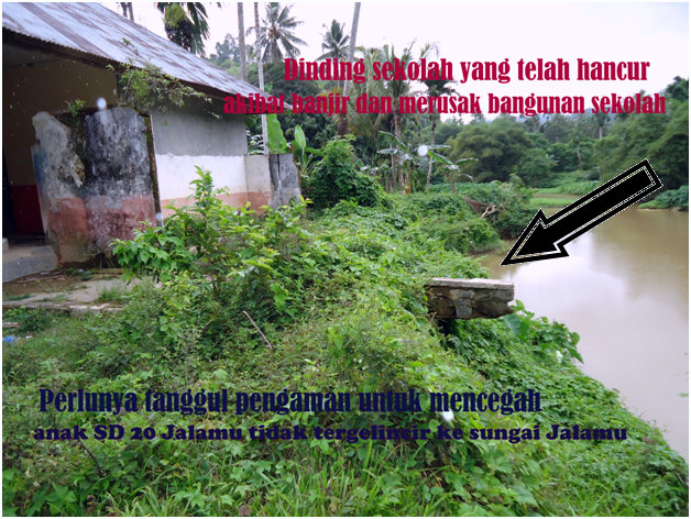 SD Negeri No.20 Jalamu Batang Kapas